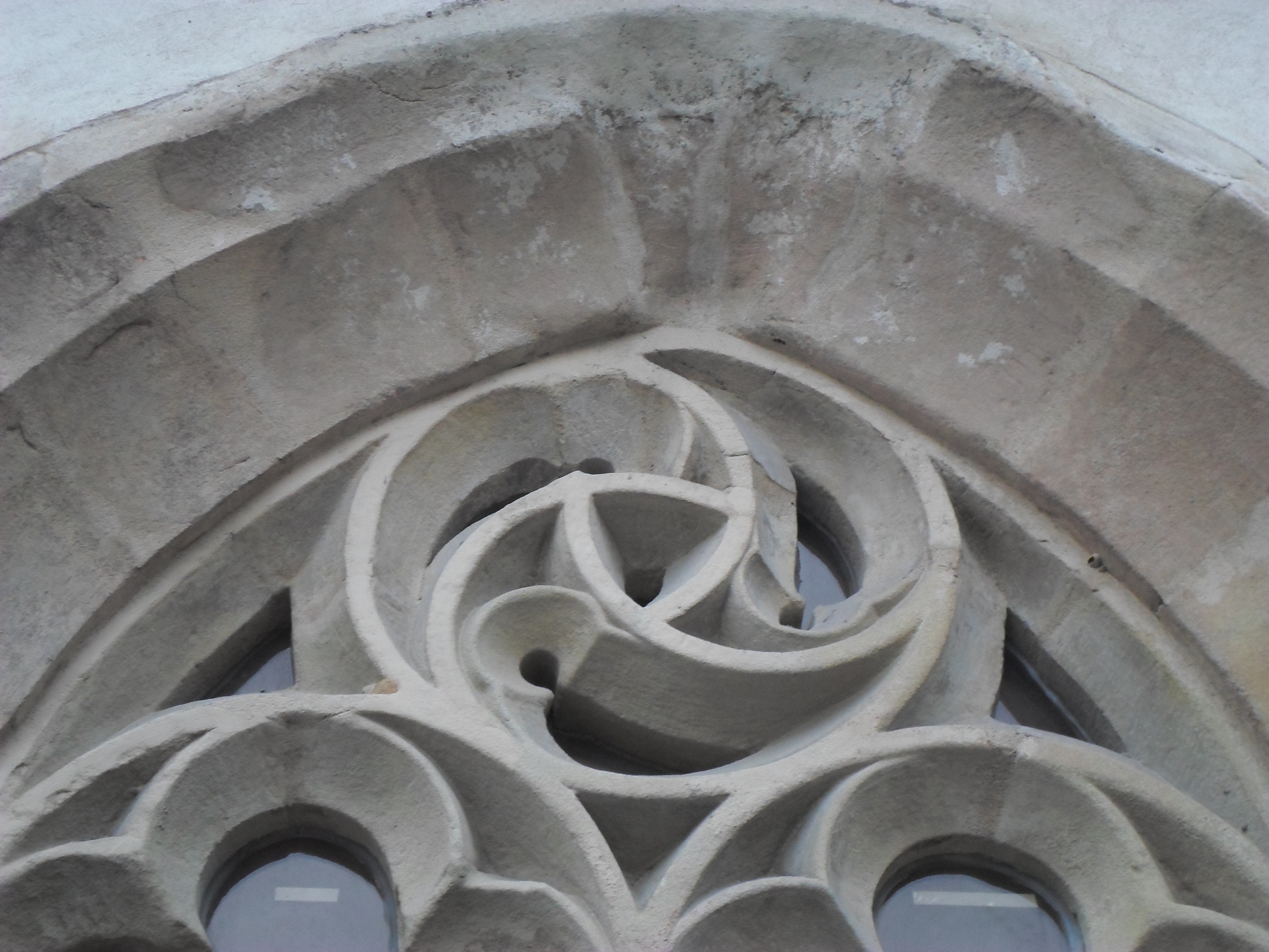 triskel-triskele-triquetre-triscel VAN_DEN_HENDE_ALAIN CC-BY-SA-40 PDP BG 007